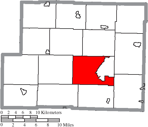 Map of the municipal and township boundaries of Harrison County, Ohio, United States, as of the 2000 census, with the location of Cadiz Township highlighted. Township borders are shown only in unincorporated areas in order to differentiate incorporated and unincorporated areas more clearly.